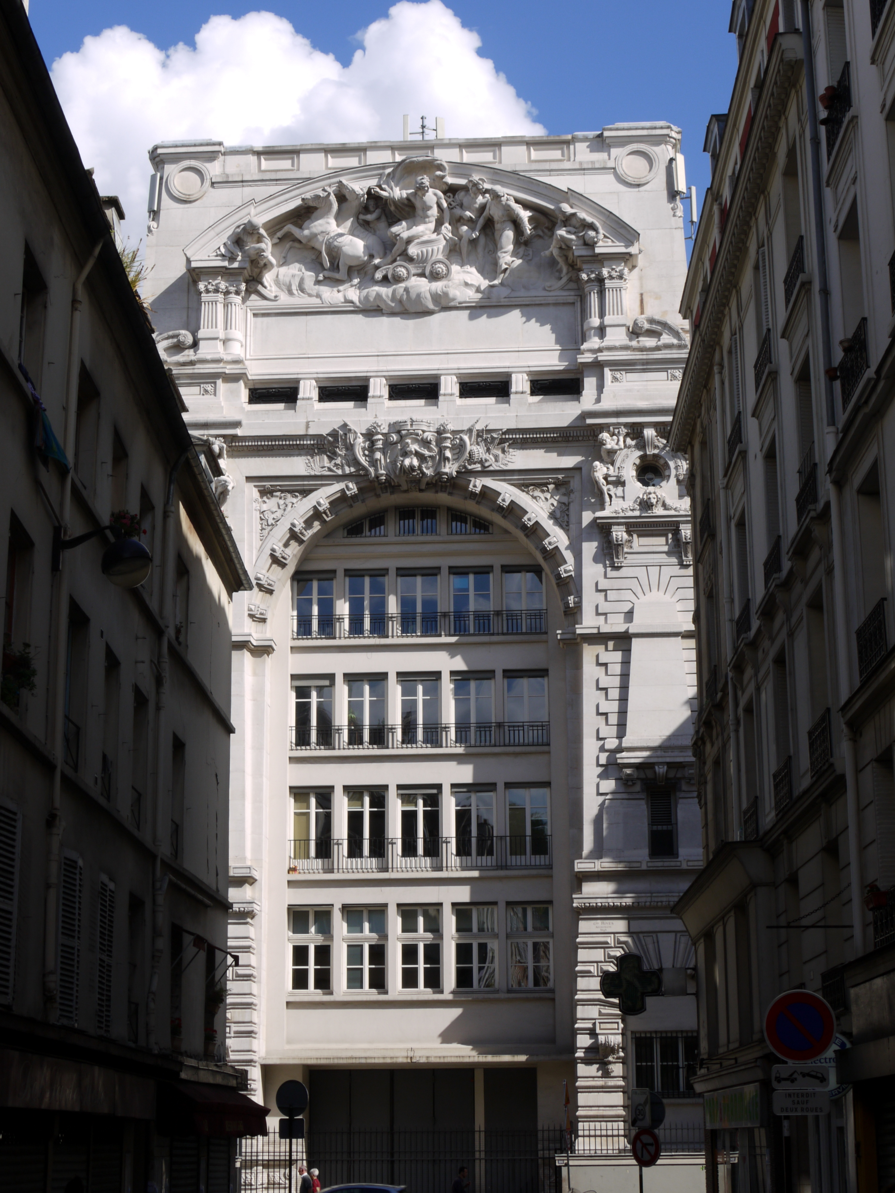 Entrance of the ancient department store "Grands Magasins Dufayel", 26 rue de Clignancourt, Paris 18th district.